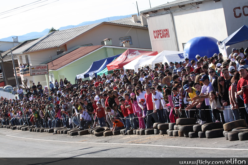 Population of Campos Novos, Santa Catarina, Brazil.